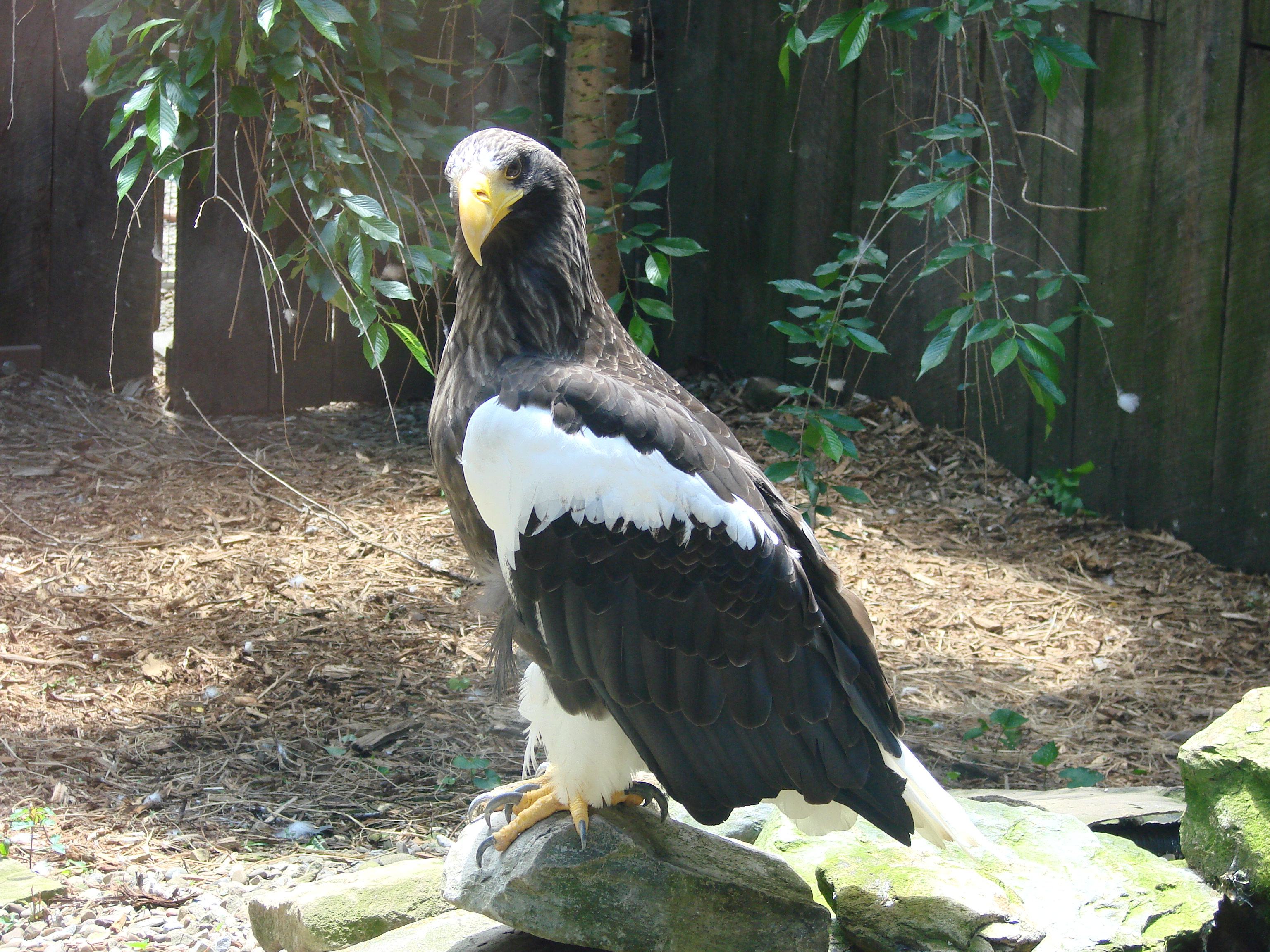 2008-05-25 Pittsburgh 062 Aviary, Haliaeetus pelagicus Steller's Sea Eagle